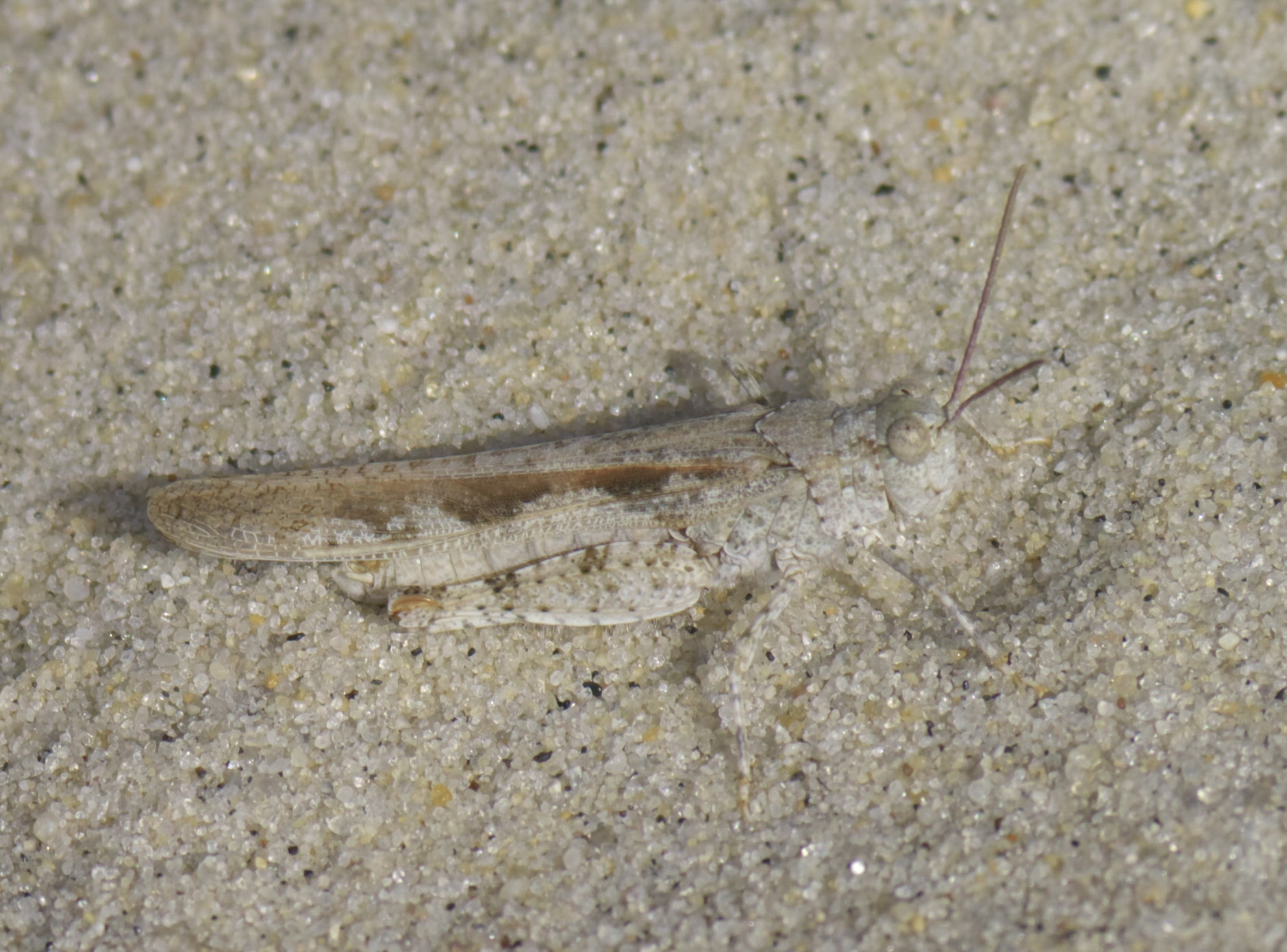 Trimerotropis maritima, Seaside Grasshopper, ID Confidence: 88